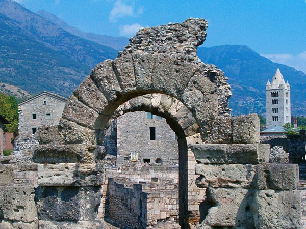 archaeological site in Aosta pciture taken by user:Idéfix, august 2003